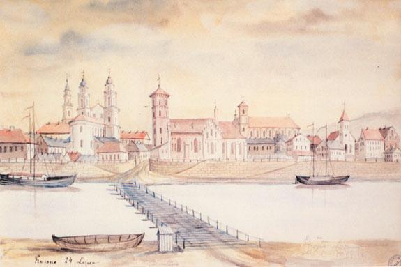 Napoleon Orda. Kaunas Old Town in 19th century.